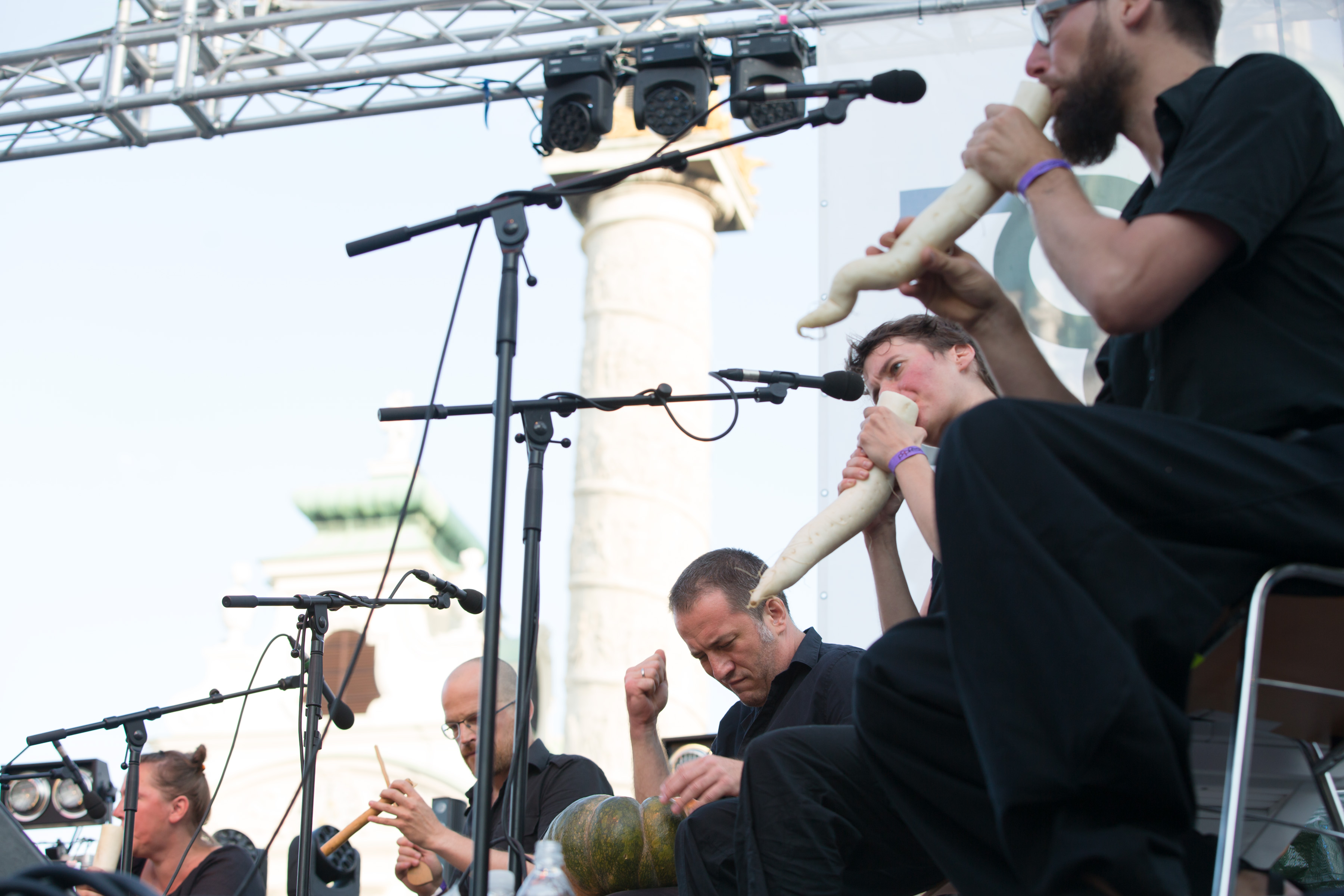 Popfest 2015: The Vegetable Orchestra; Karlsplatz in Vienna, Austria.